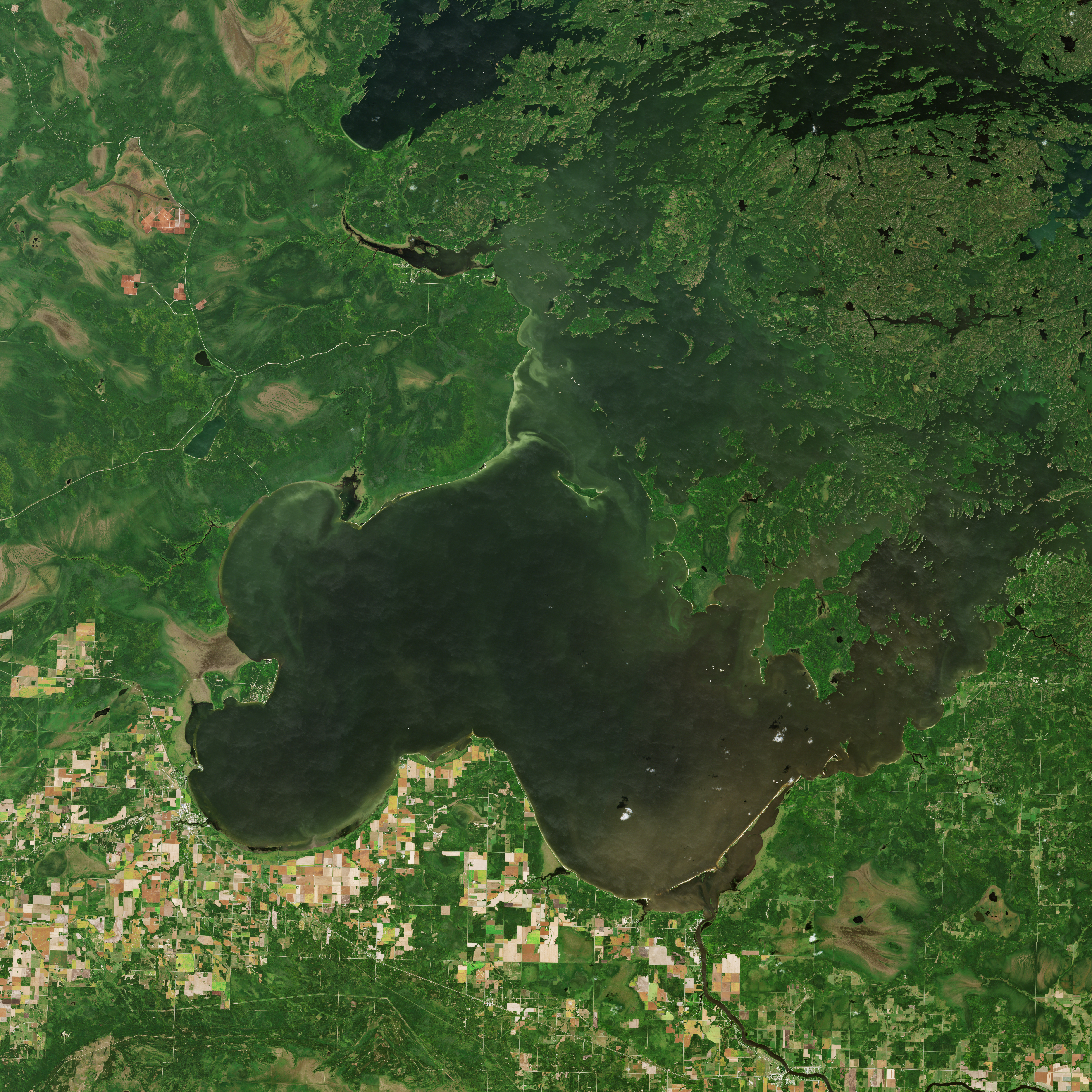 Date: 2018-09-05 Sensor: MSI on Sentinel-2B Resolution: 20m (Downsampled) RGB Composites: True color, Band 4-3-2